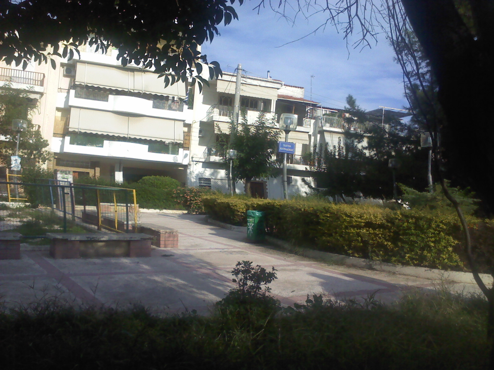 Square Kappadokias Nea Ionia